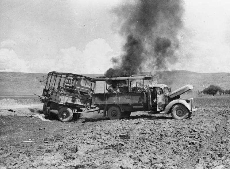 IWM caption : THE BATTLE FOR CRETE, 20 - 31 MAY 1941. A British lorry and trailer burning after being attacked by Luftwaffe aircraft.